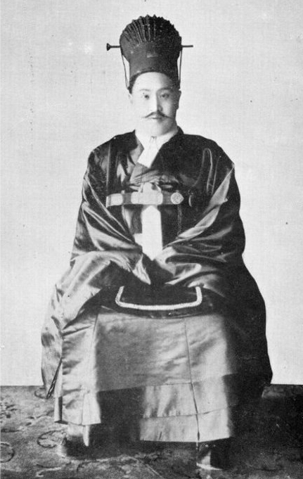 Sunjong of the Korean Empire Portrait